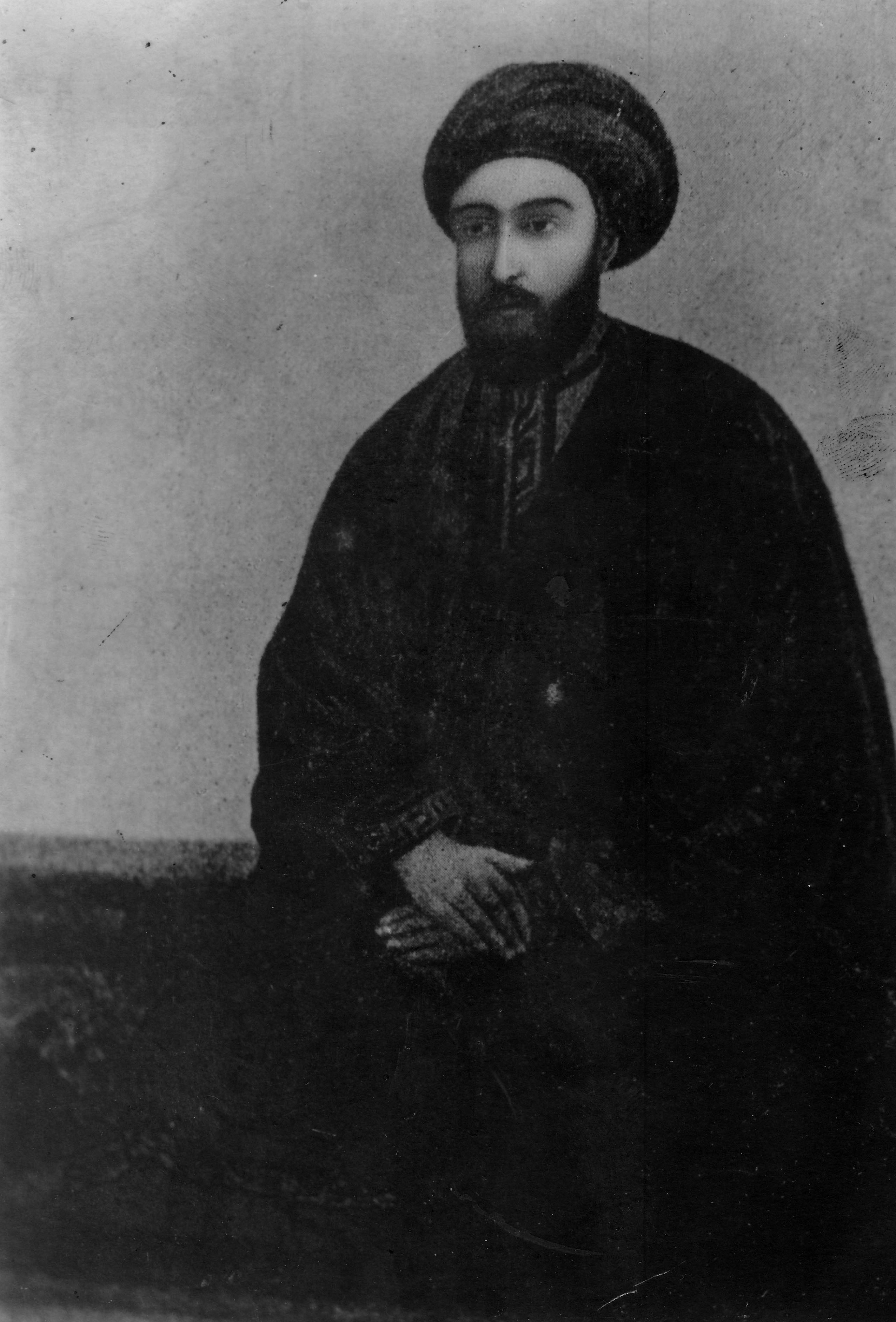 Bábism founder The Báb.